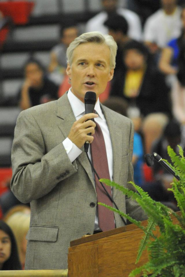 Lewis Massey speaking at student council induction at Gainesville High School, Gaineville, GA. April 2012